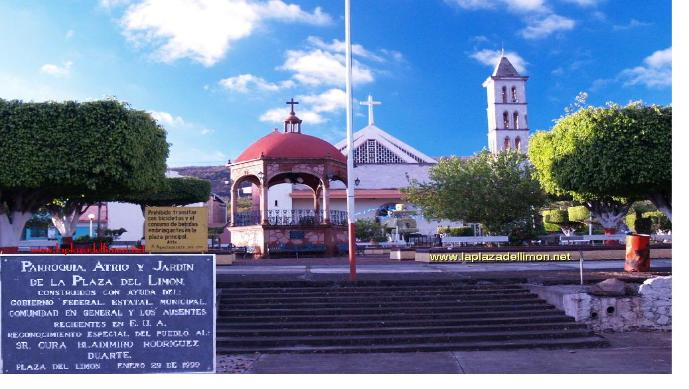 Plaza del limón